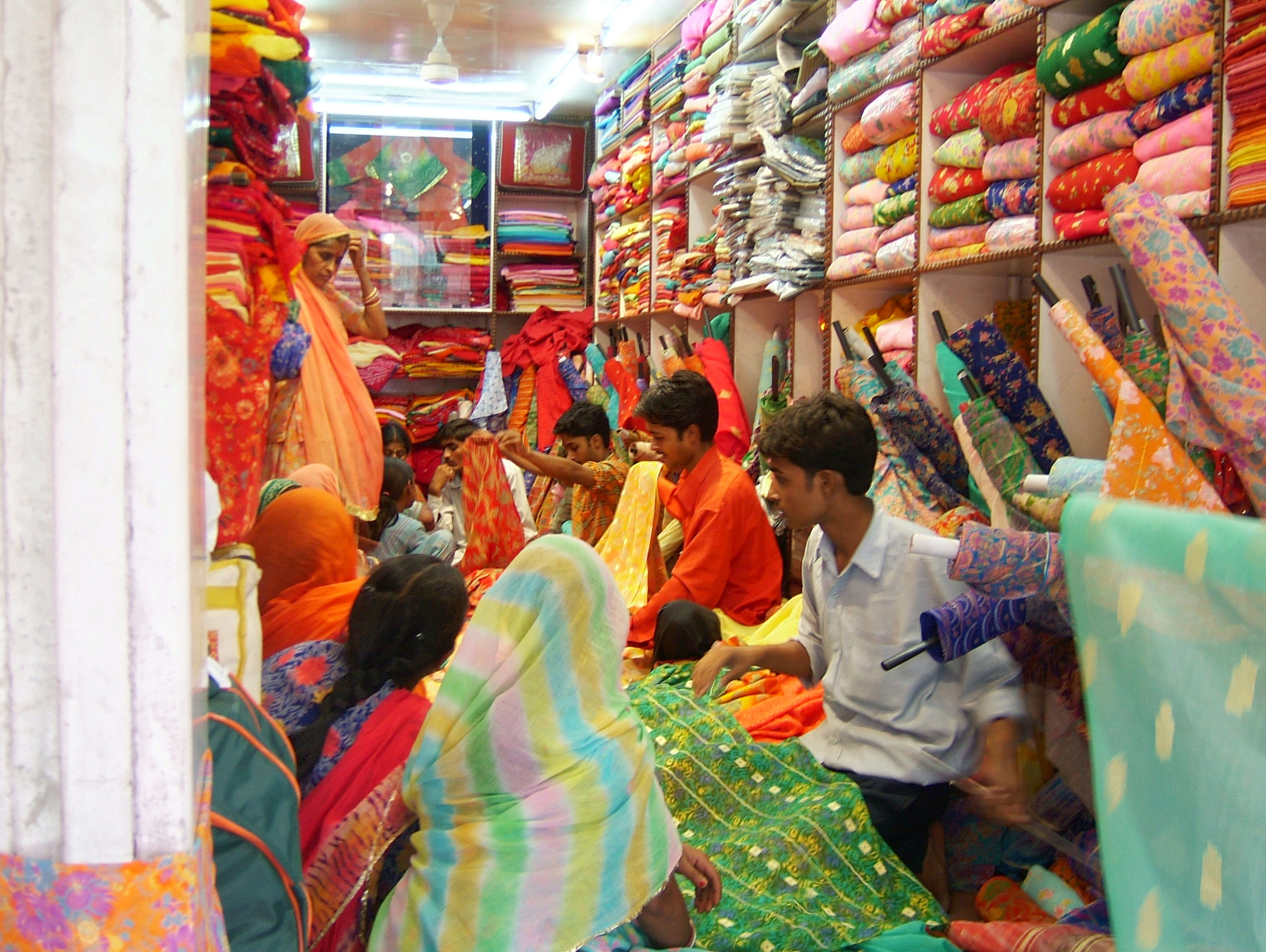 Sardar Market side streets, Jodhpur, Rajasthan